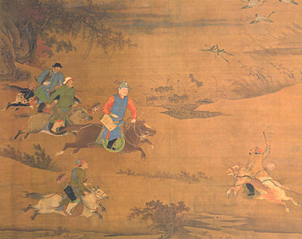 A Qing era painting with a lead rider dressed in a magua riding jacket.